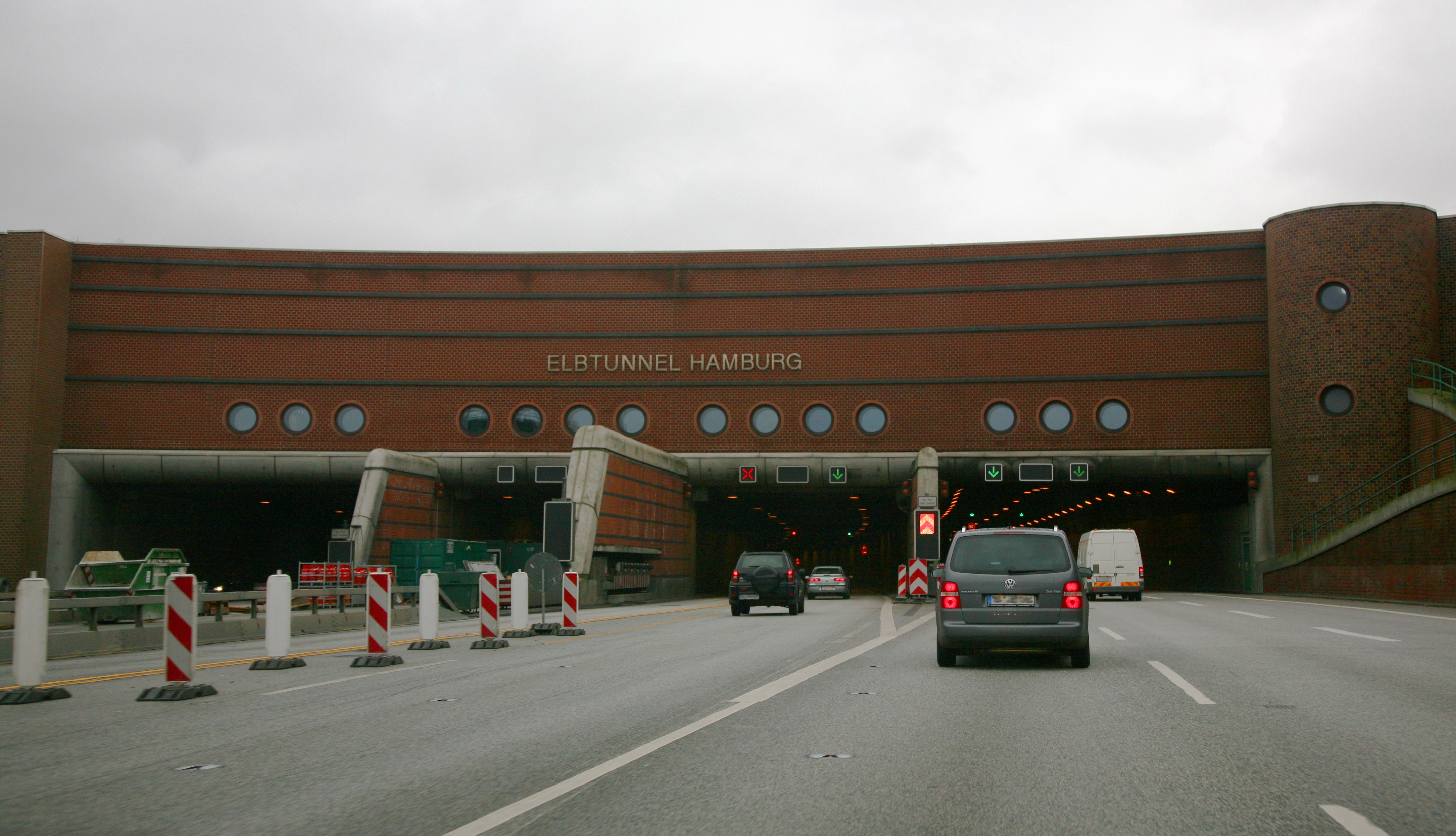 Elbtunnel north portal (license plates edited out)